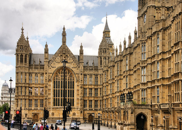 The Palace of Westminster Seen from Abingdon Street.